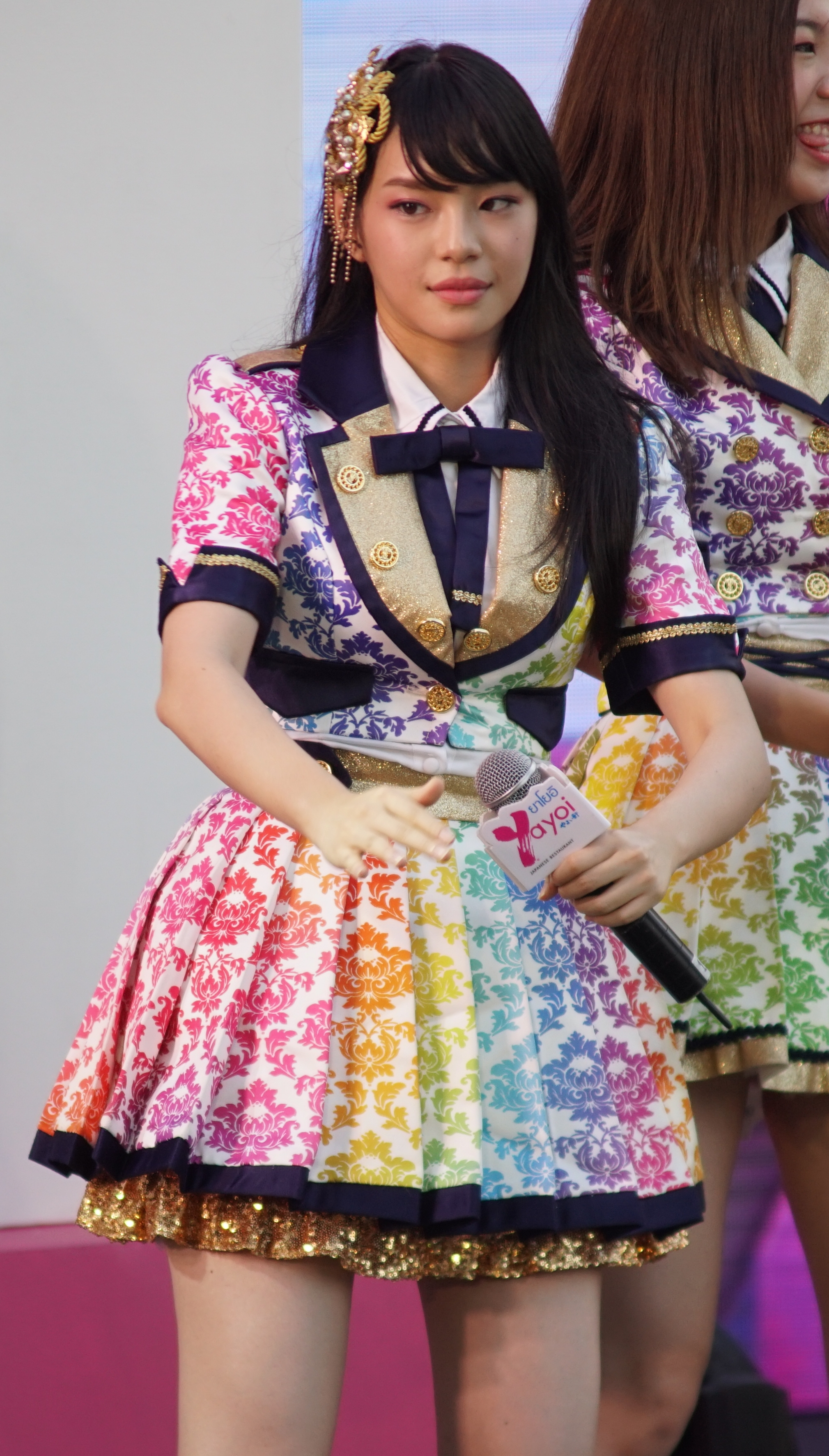 Cherprang Areekul during mini-live mini-live in front of CentralWorld (2018)